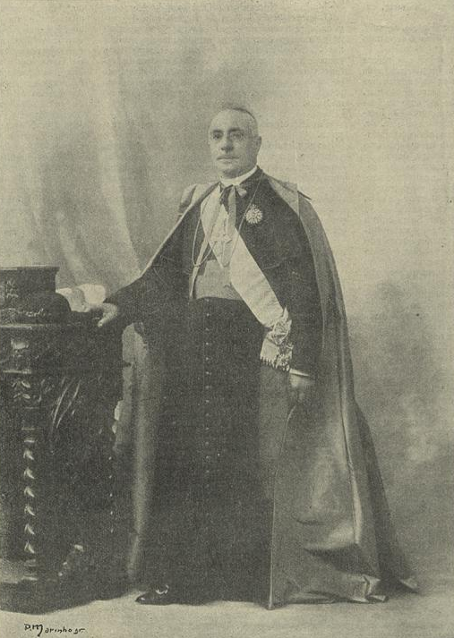 Monsignor Giulio Tonti, Apostolic Nuncio in Portugal, photographed by the Panajou frères